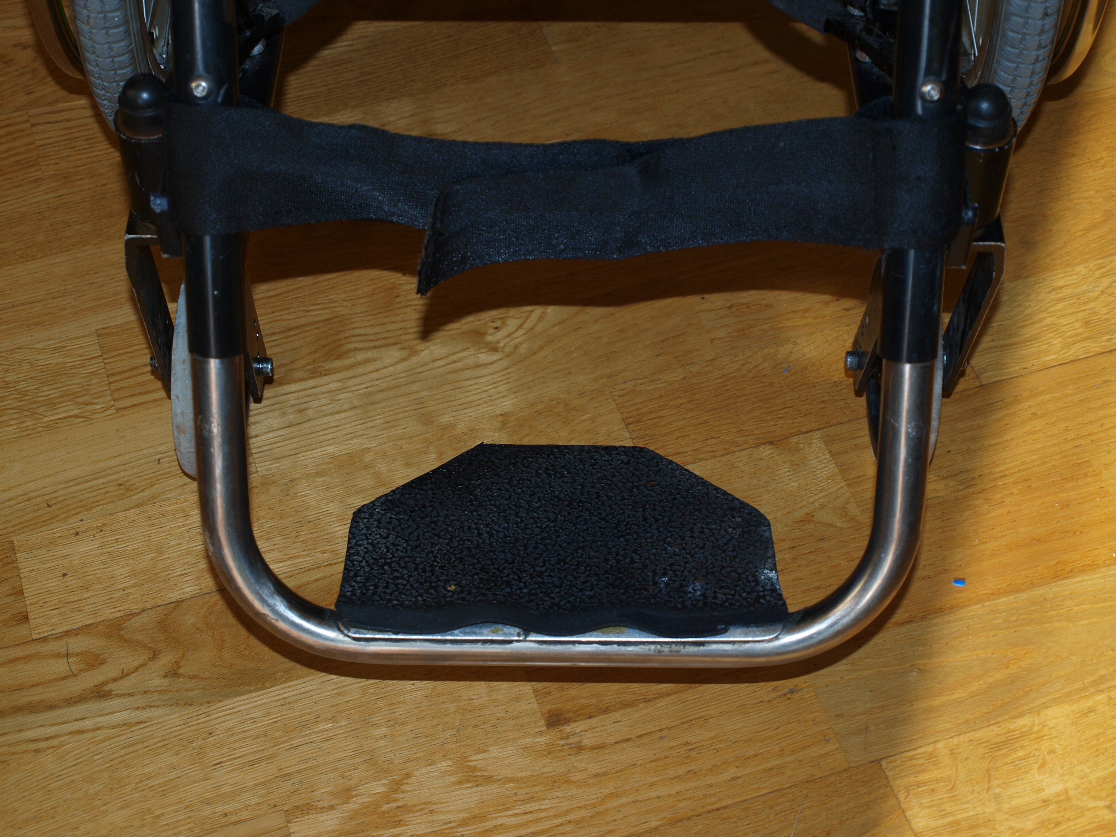 XLT model from 1994 (by Scandinavian Mobility), footrest